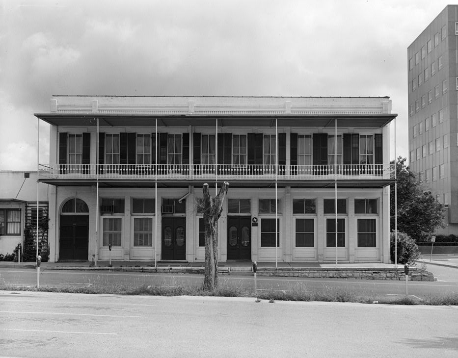 Goodman Building, south (front) elevation — Austin, Texas. Listed on the national Register of Historic Places. Historic American Buildings Survey—HABS image.